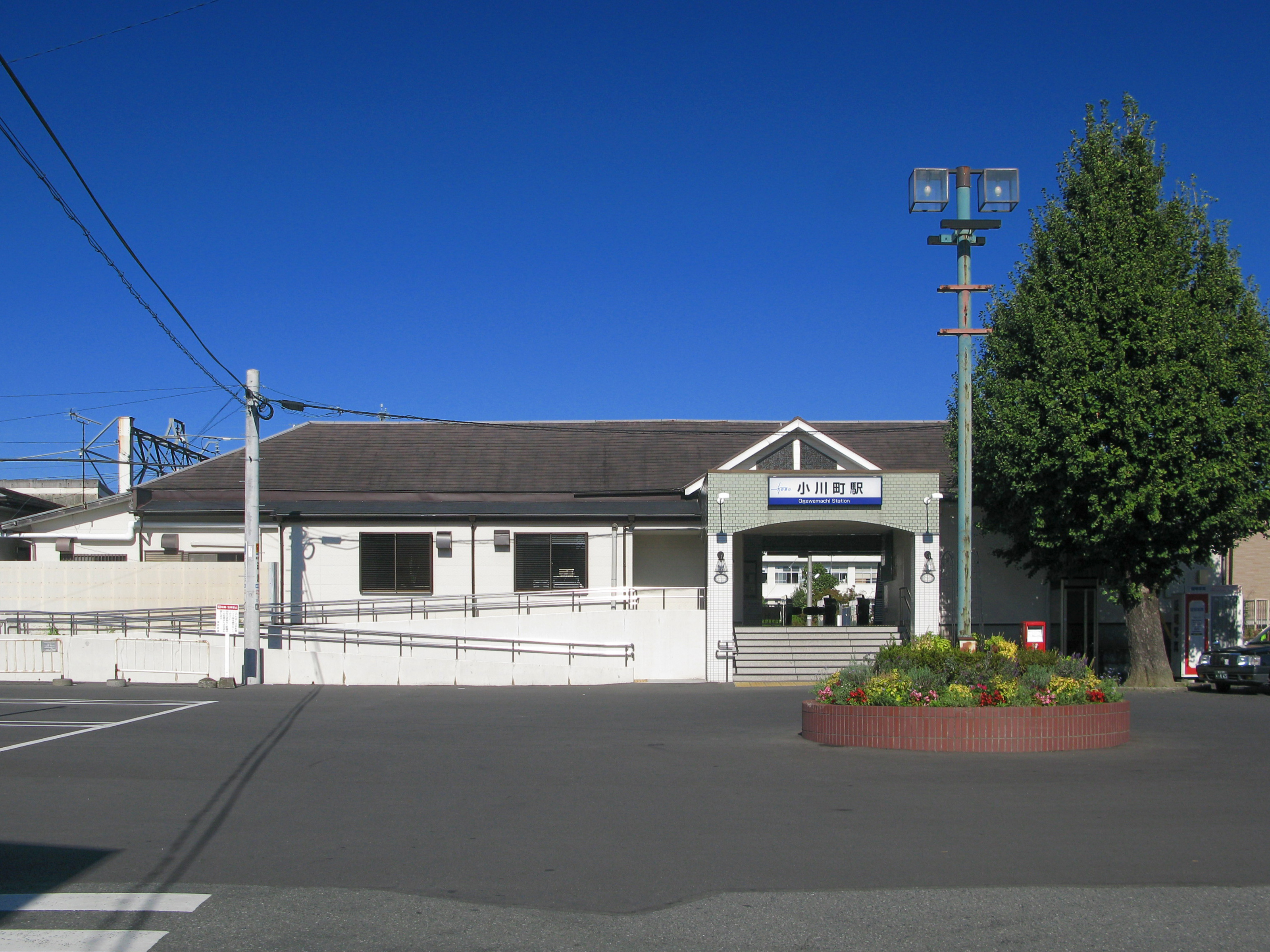 Ogawamachi Station in Ogawa, Saitama Prefecture, Japan